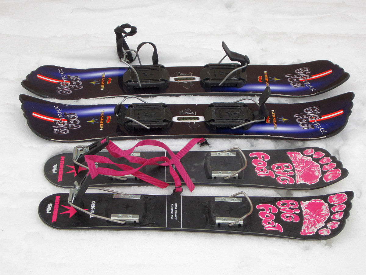 Kneissl Bigfoot Trick and Bigfoot Original